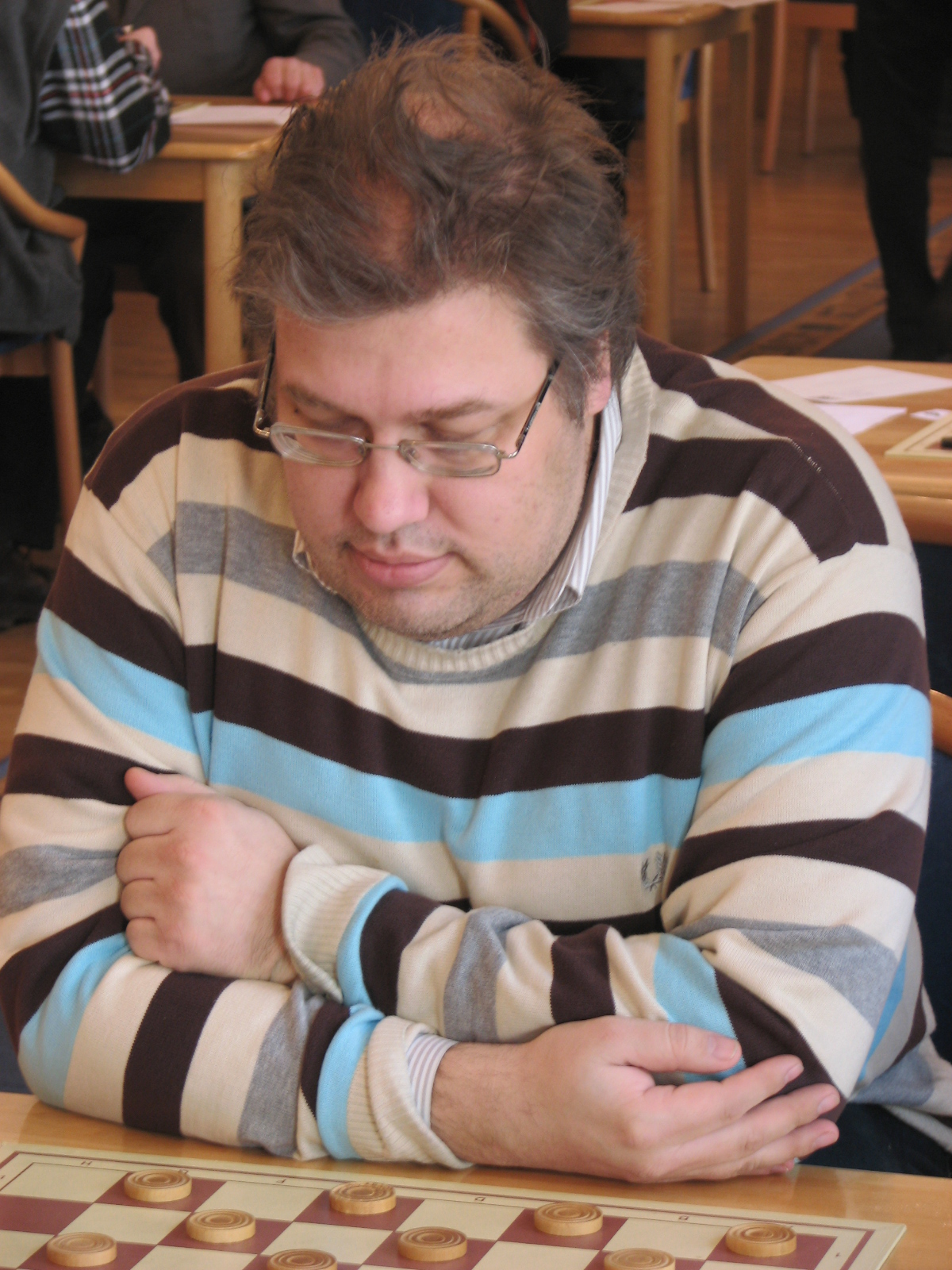 Villem Lüüs playing draughts